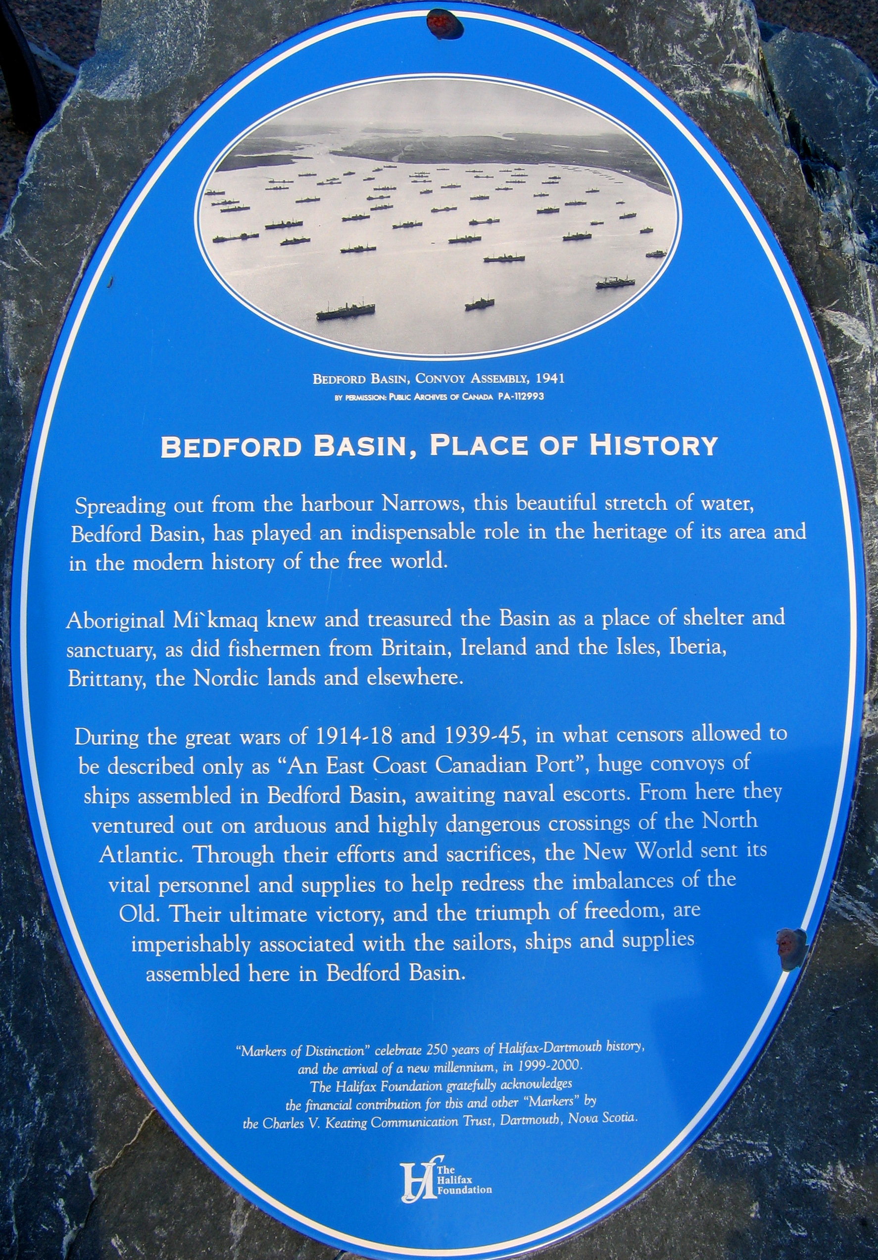 Historical plaque (World War 2 convoys) at the waterfront in Bedford, Nova Scotia at the tip of the Bedford Basin